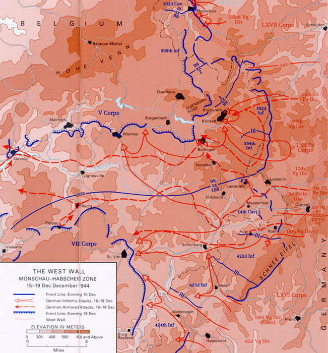 Map of the Ardennes depicting the West Wall, Monschau Habscheid zone, 15 to 19 December, 1944, St. Vith area, Battle of the Bulge